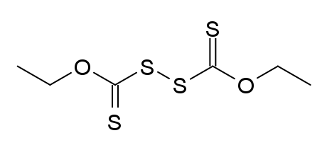 i drew this anyone can use it